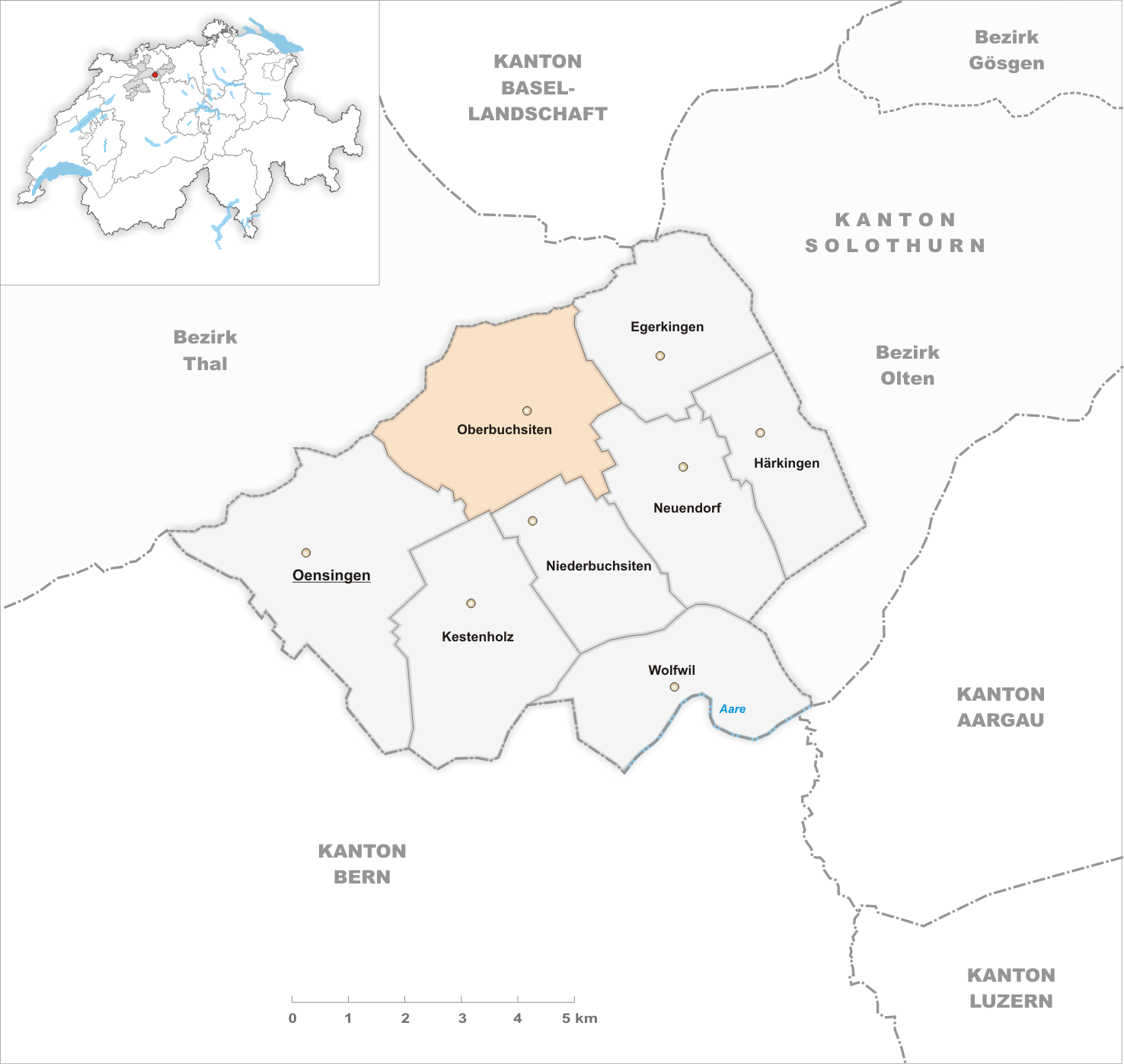 Municipality Oberbuchsiten